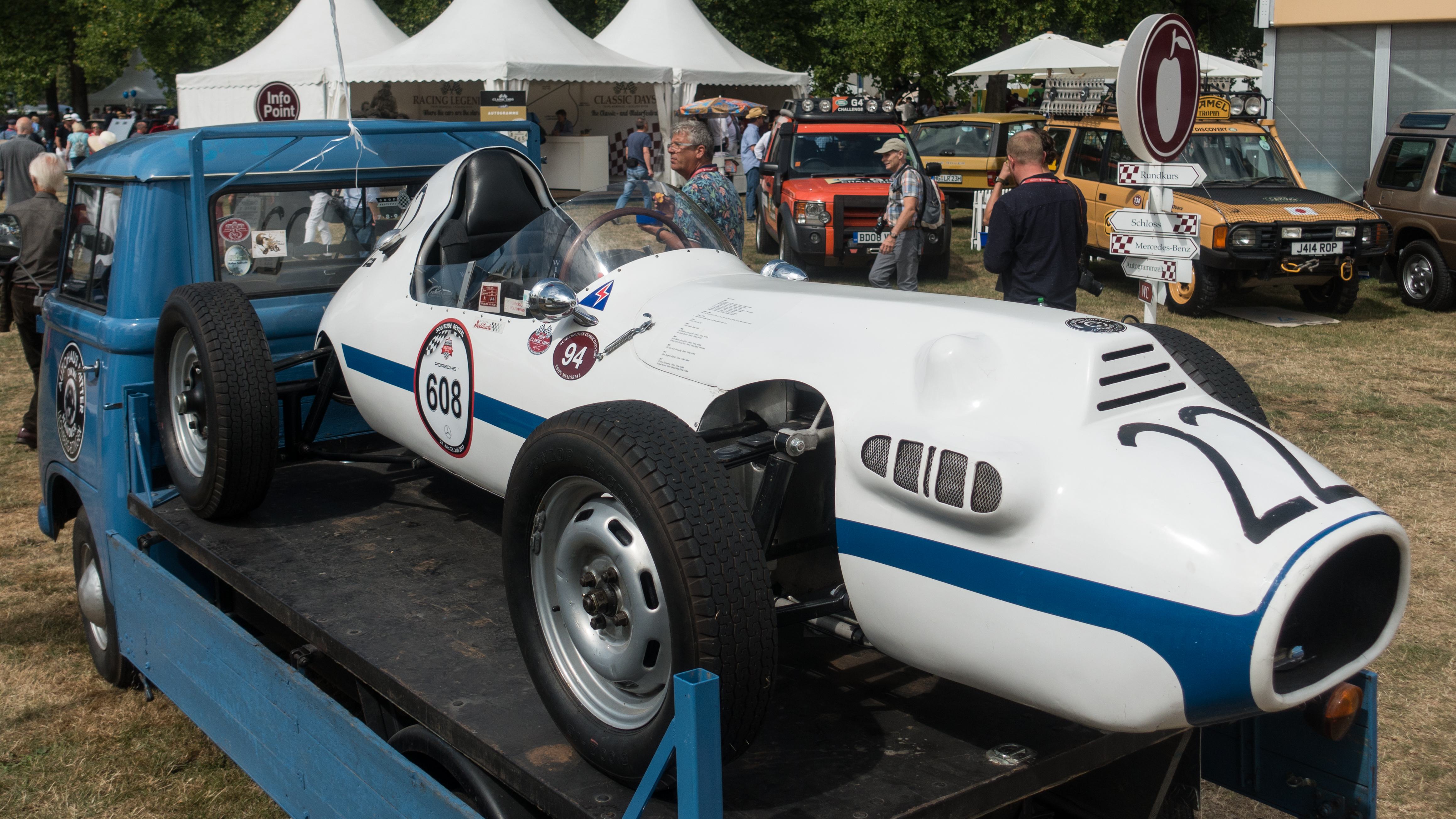 Mitter-DKW Formula Junior (1960) at Classic Days 2019 Schloß Dyck